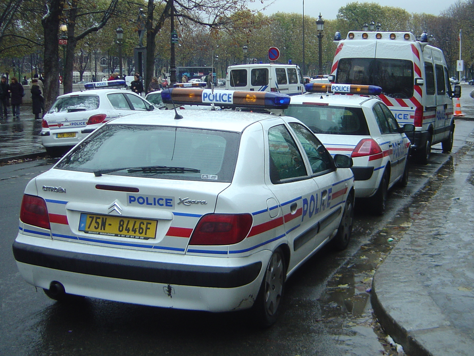 French National Police forces in front of the Grand Palais in Paris, France